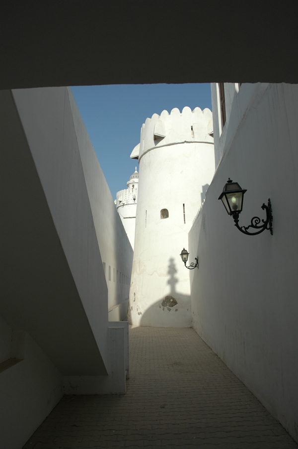 Image copyright Xander Veldhuijzen 2006 — Creative Commons Attribution-Sharealike. This permits free use of my image, but requires that I am attributed as the creator; and requires that any derivative creator or redistributor of your work use the same license.